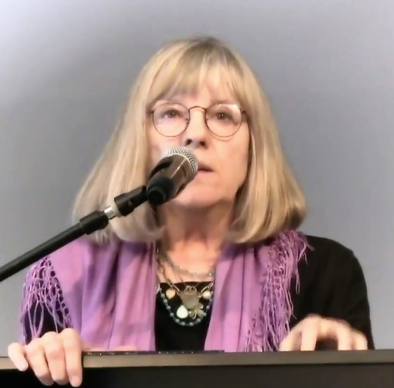 16. Election Integrity: The Path Forward - Mimi Kennedy Mimi Kennedy has served as Advisory Board Chair for Progressive Democrats of America since its founding in 2004. She is an actress on stage (GREASE) TV (MOM, DHARMA & GREG) and film (MIDNIGHT IN PARIS, IN THE LOOP) and writer (TAKEN TO THE STAGE; THE EDUCATION OF AN ACTRESS) She’s worked voluntarily for Election Integrity since 2002, helping found CEPN (California Election Protection Network) and PDA’s Election Issues Organizing team. She is a member of LA County Registrar’s Voter Outreach Committee and was invited to help establish principles for LA’s new voting system as a member of the Registrar’s Voting Systems Advisory Panel. Her non-negotiable was a human-readable paper ballot counted independently from the machine that produced it, and that is the new system’s design. She makes media appearances (Thom Hartmann, Harvey Wasserman, KPFK-Pacifica) to discuss election integrity developments and warn of new fraud risks like “Fraction Magic”, Bev Harris and Bennie Smith’s discovery of fractional voting programs in 80% of US private-company election systems. Progressive Democrats of America: For more information on the conference, go to: For more information on election integrity issues, go to: For ongoing support of our efforts, please consider contributing to